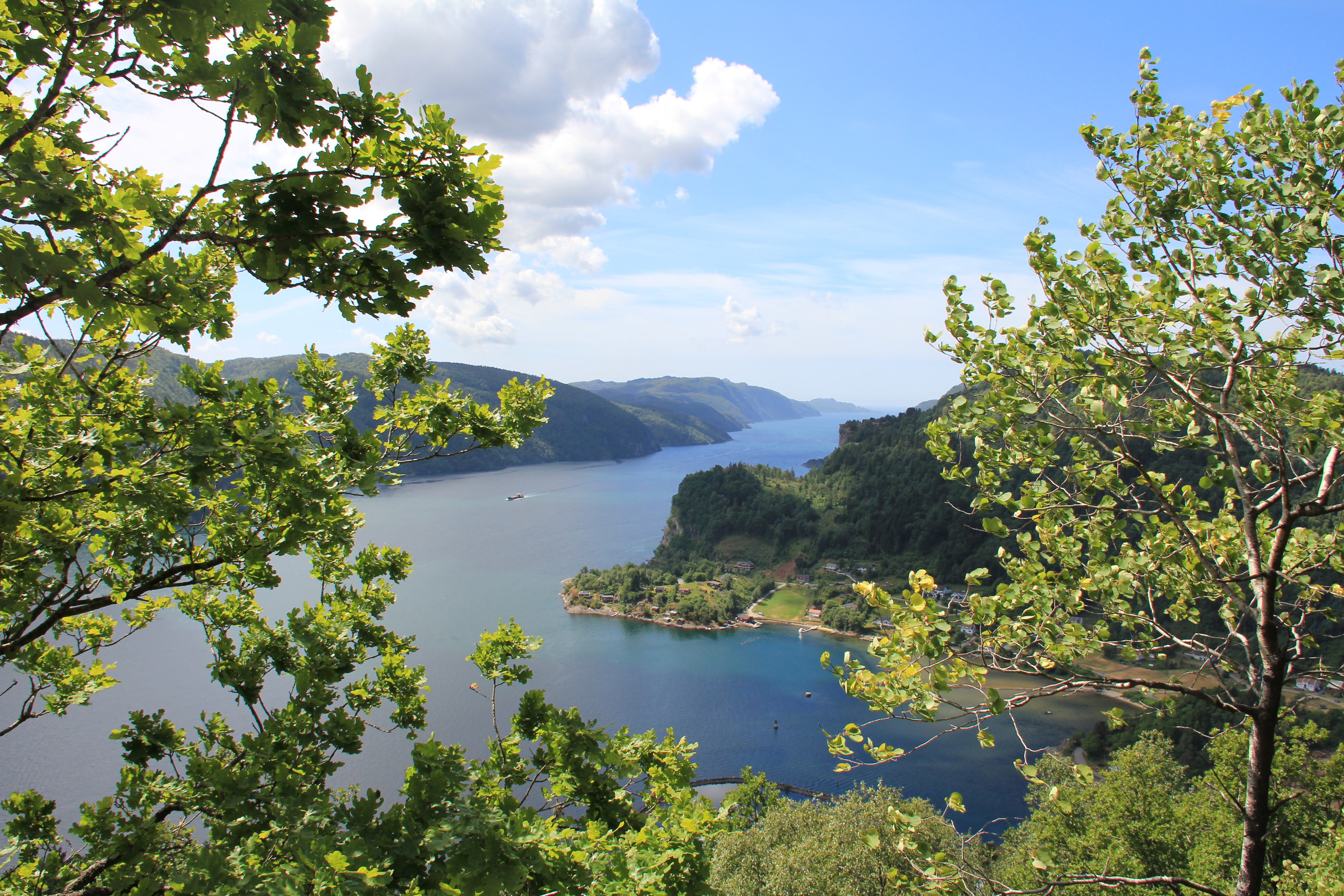 Fedafjorden, Feda fiord, in Kvinesdal Aust-Agder, seen from the east.